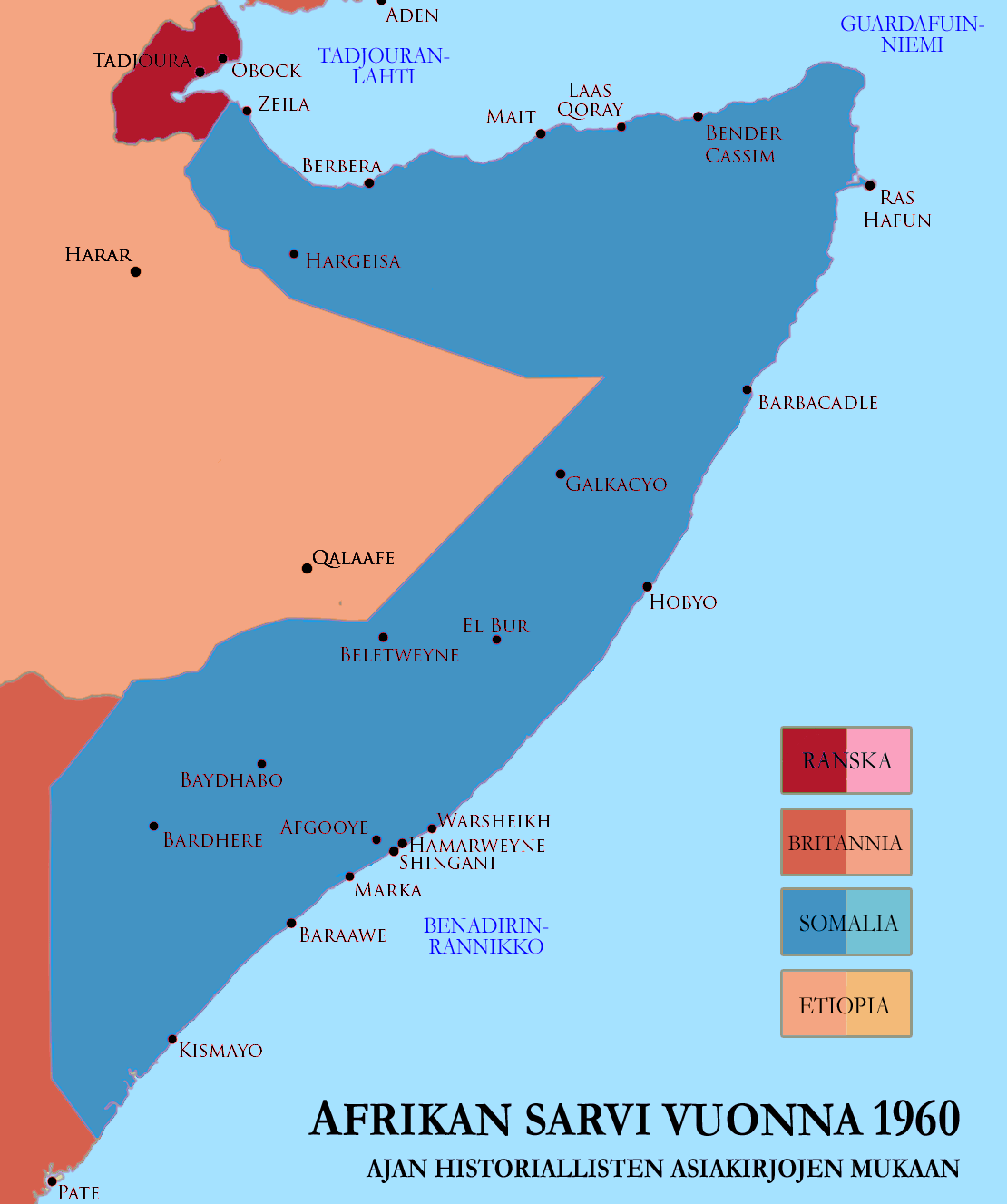 Somalia in 1960 according to contemporary sources